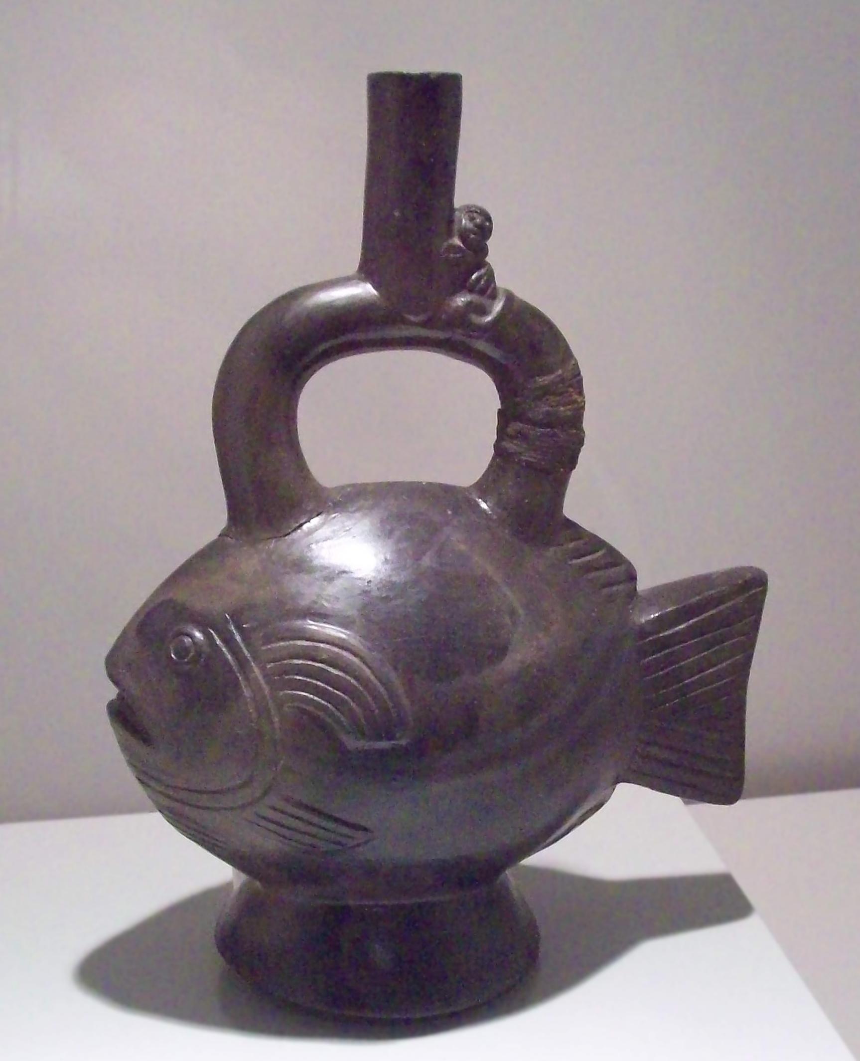 A Chimú vessel representing a fish.